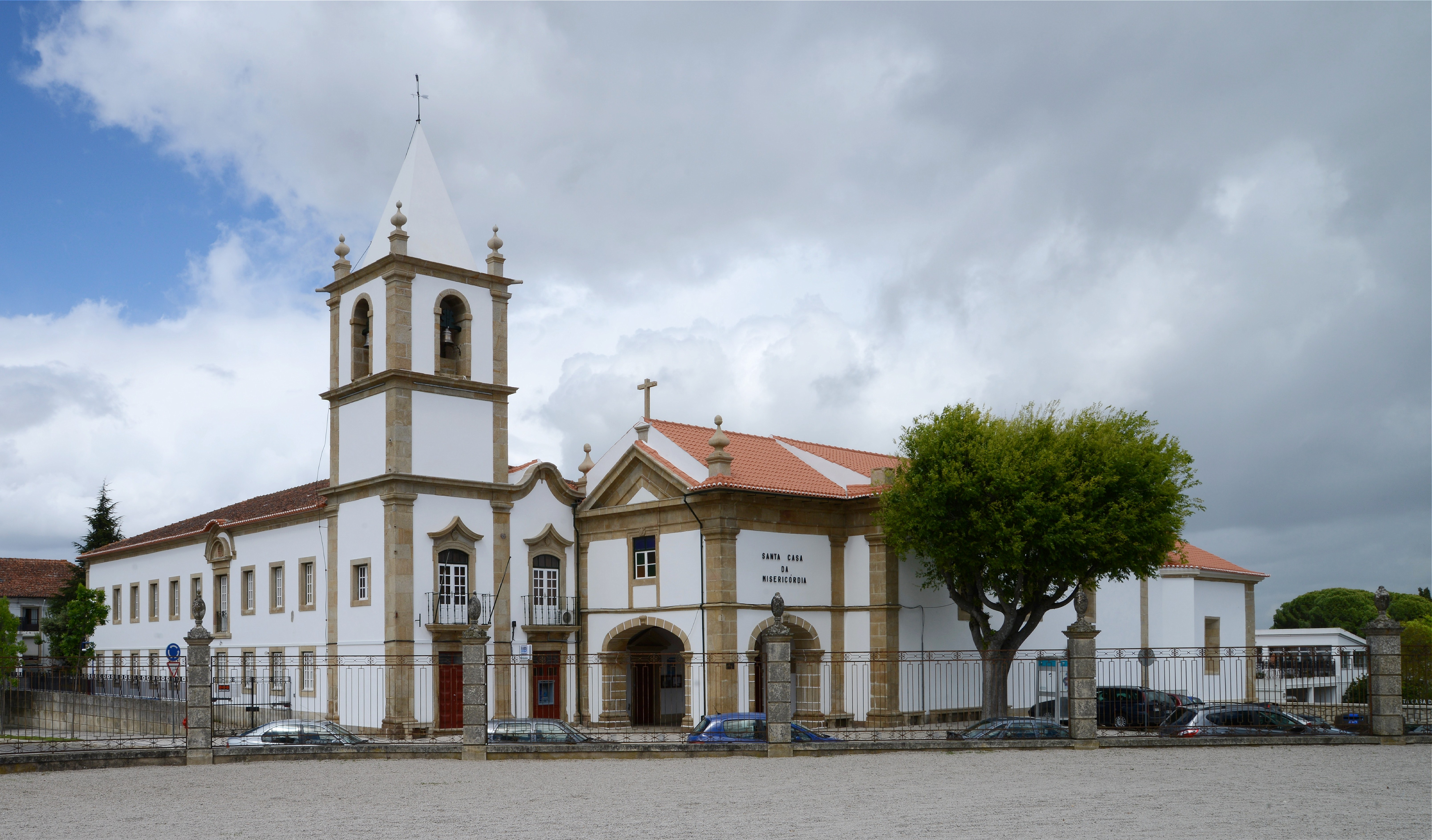 Convento da Graça,Castelo Branco, Portugal